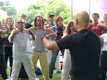 World Tai Chi & Qigong Day archive - Israel event